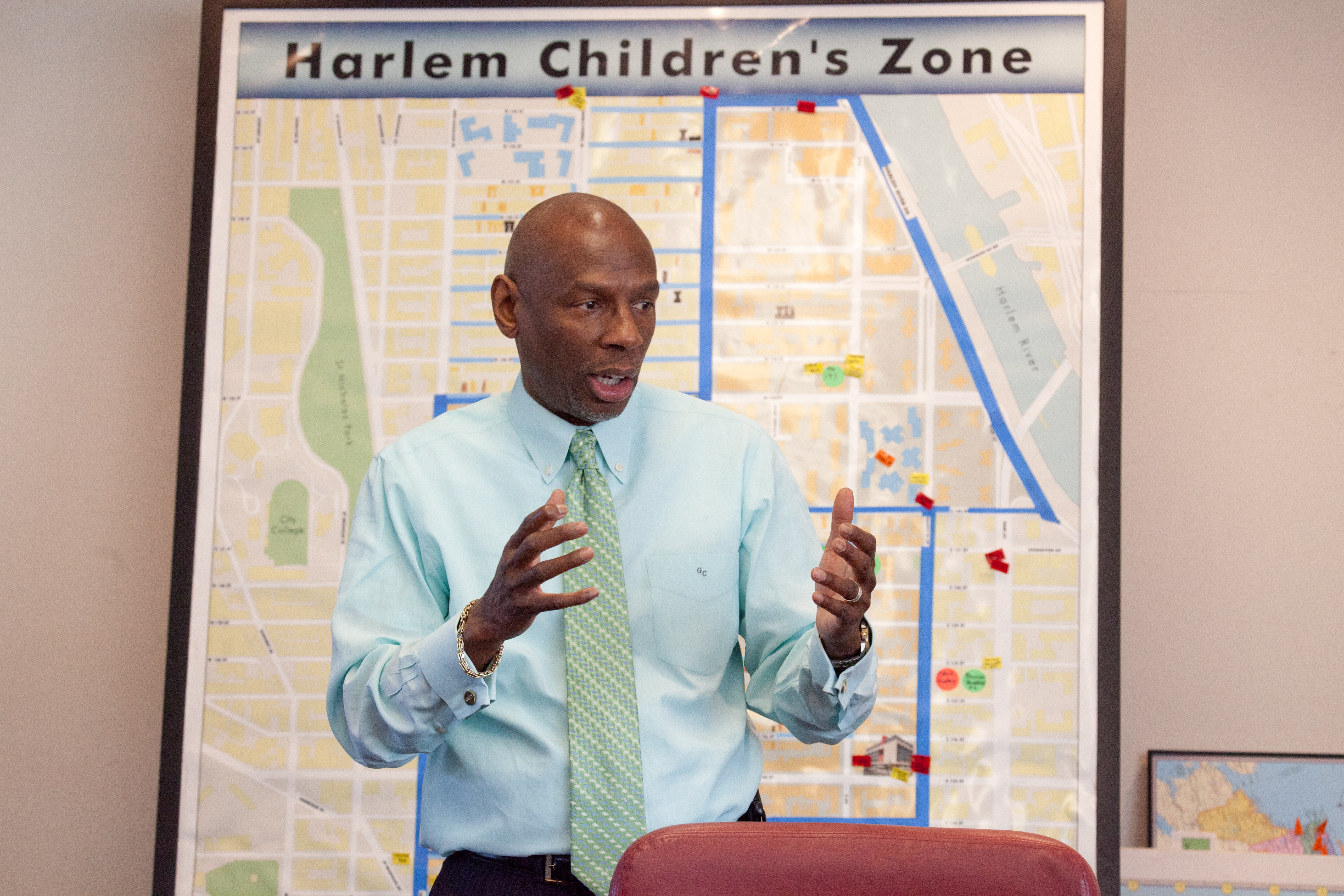 A photograph of educator Geoffrey Canada.